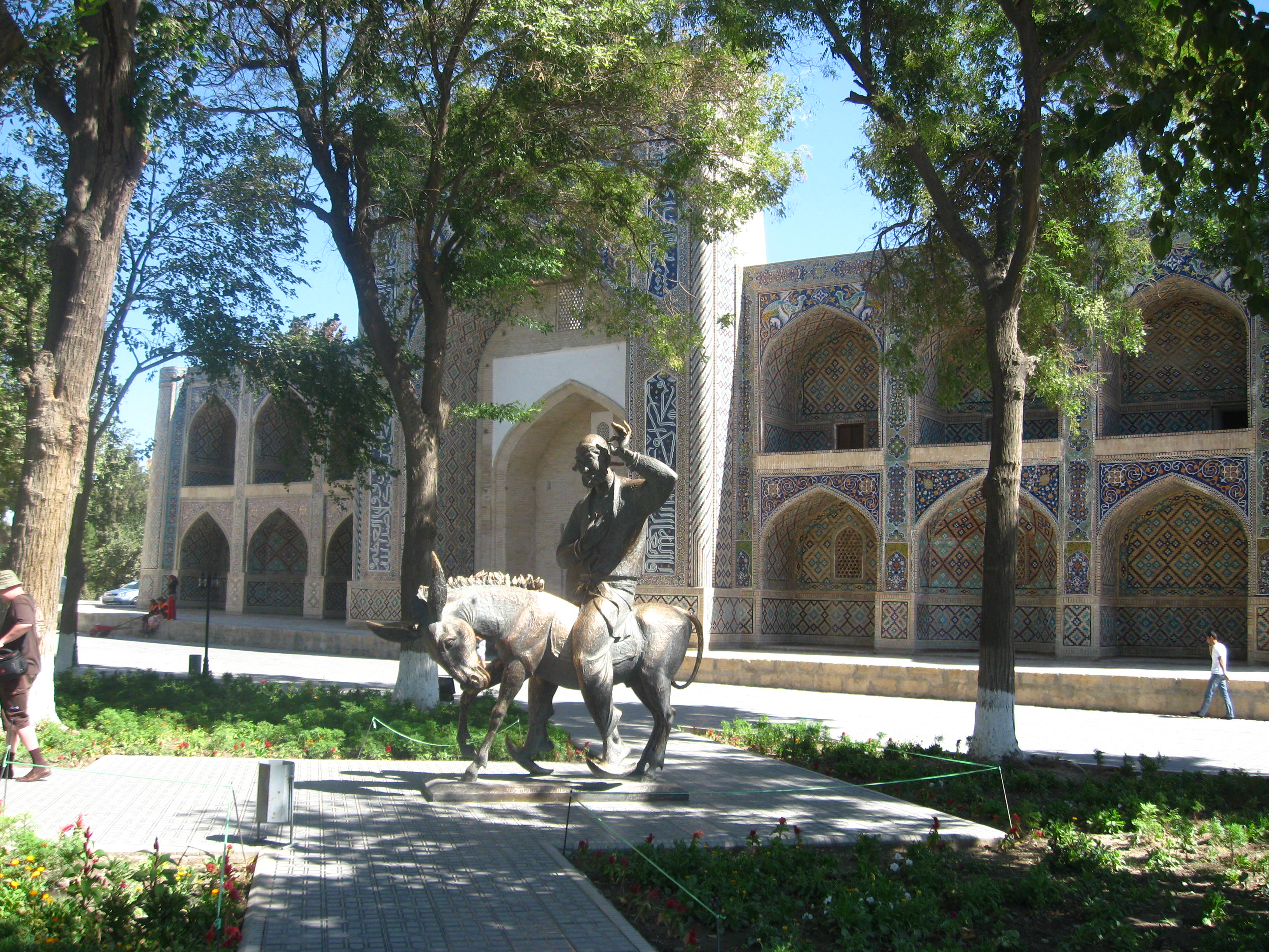 In the centre of the Lyab-i-hauz area, opposite the Nadir Devon Begi Madrassa is the metal figure of Nasruddin Hodja, the quick-witted and warm-hearted man atop his mule, signalling that all is well.